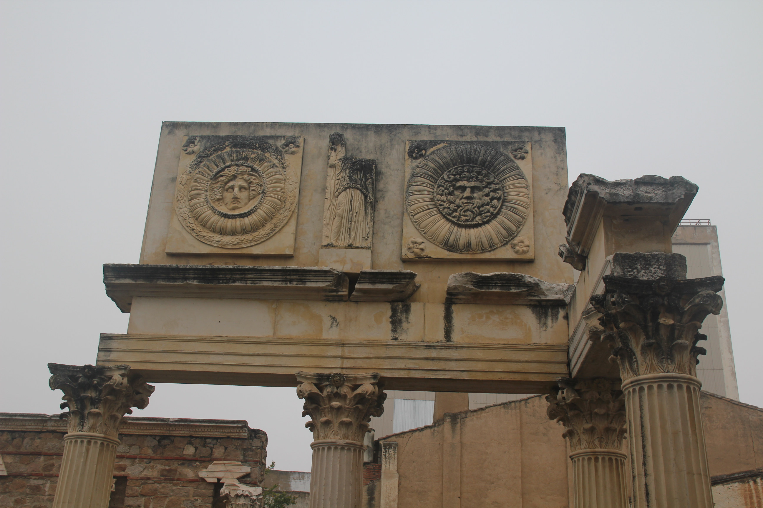 Roman Forum in Mérida